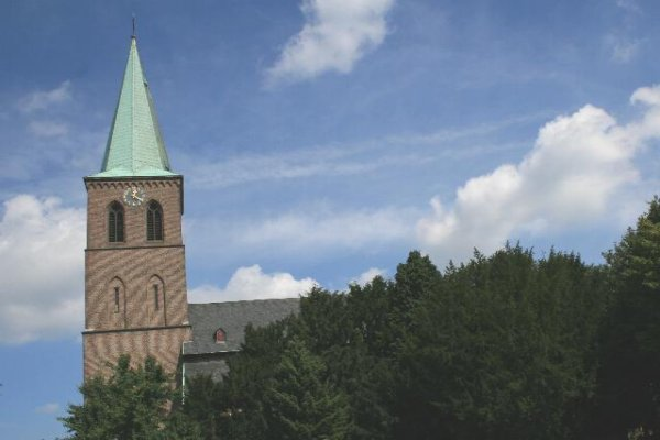 Cultural heritage monument No. 31 in Brüggen